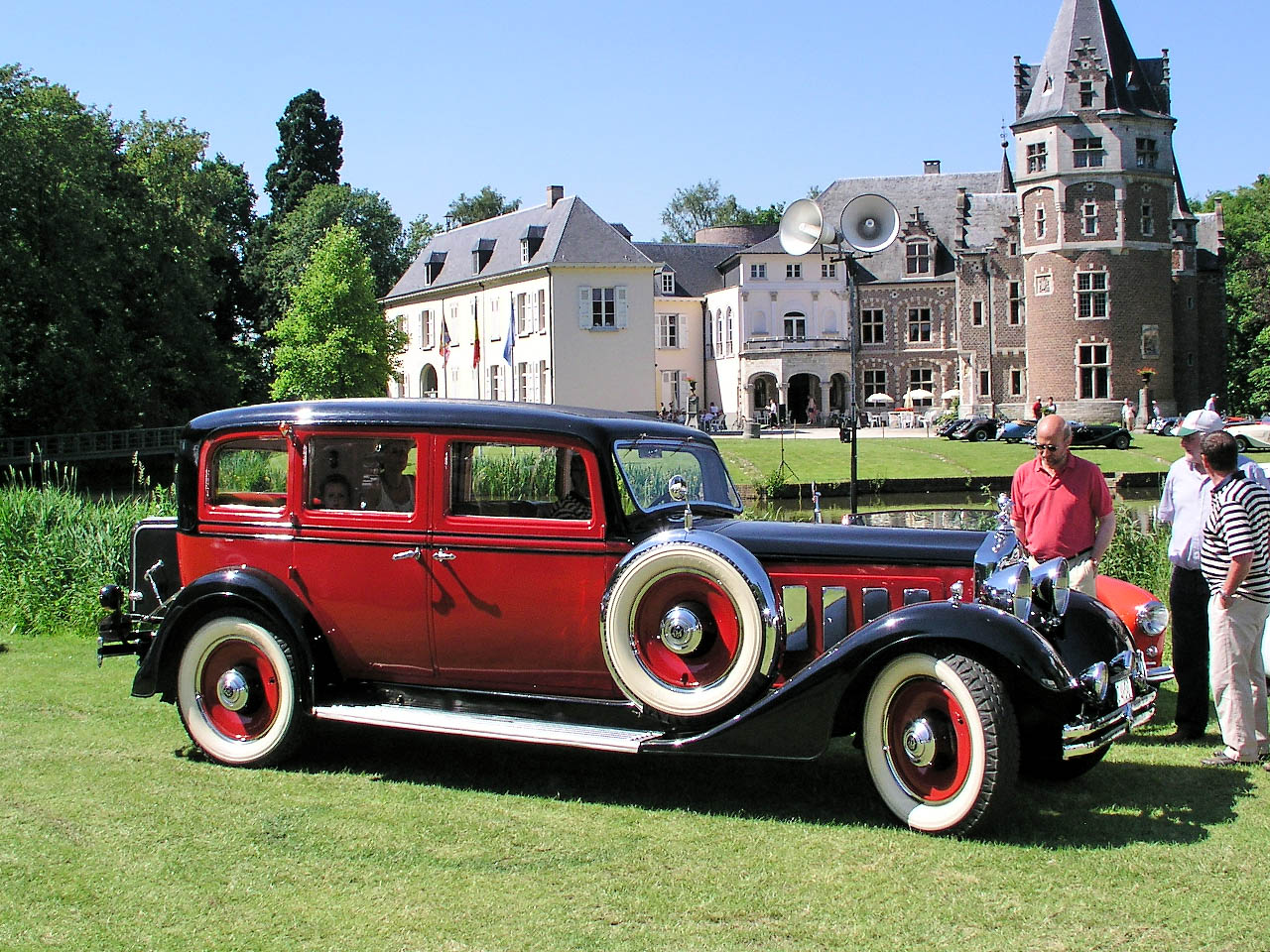 22 HP model powered by a 3960 cc 8-cylinder engine with sleeve-valves, made in Belgium by Minerva Motors SA; side view